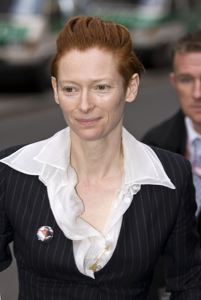 Last night Tilda Swinton won an Oscar as an Actress in a Supporting Role for "Michael Clayton" Tilda Swinton, arrival for press conference of "Derek" at the Hyatt Hotel, Potsdamer Platz, Berlin